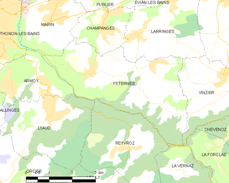 Map of French municipality Féternes